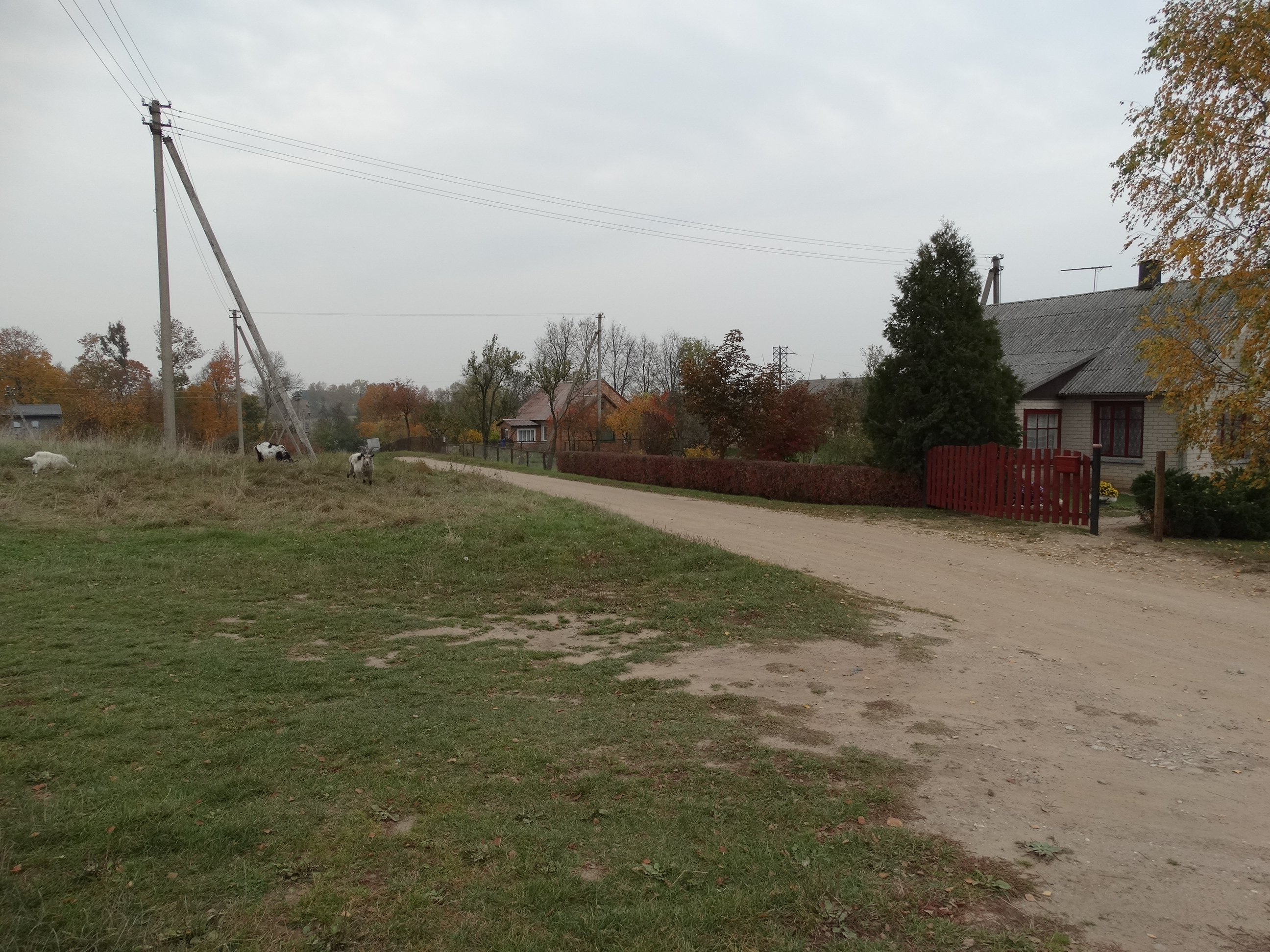 Kamšai, Kalvarija Municipality, Lithuania